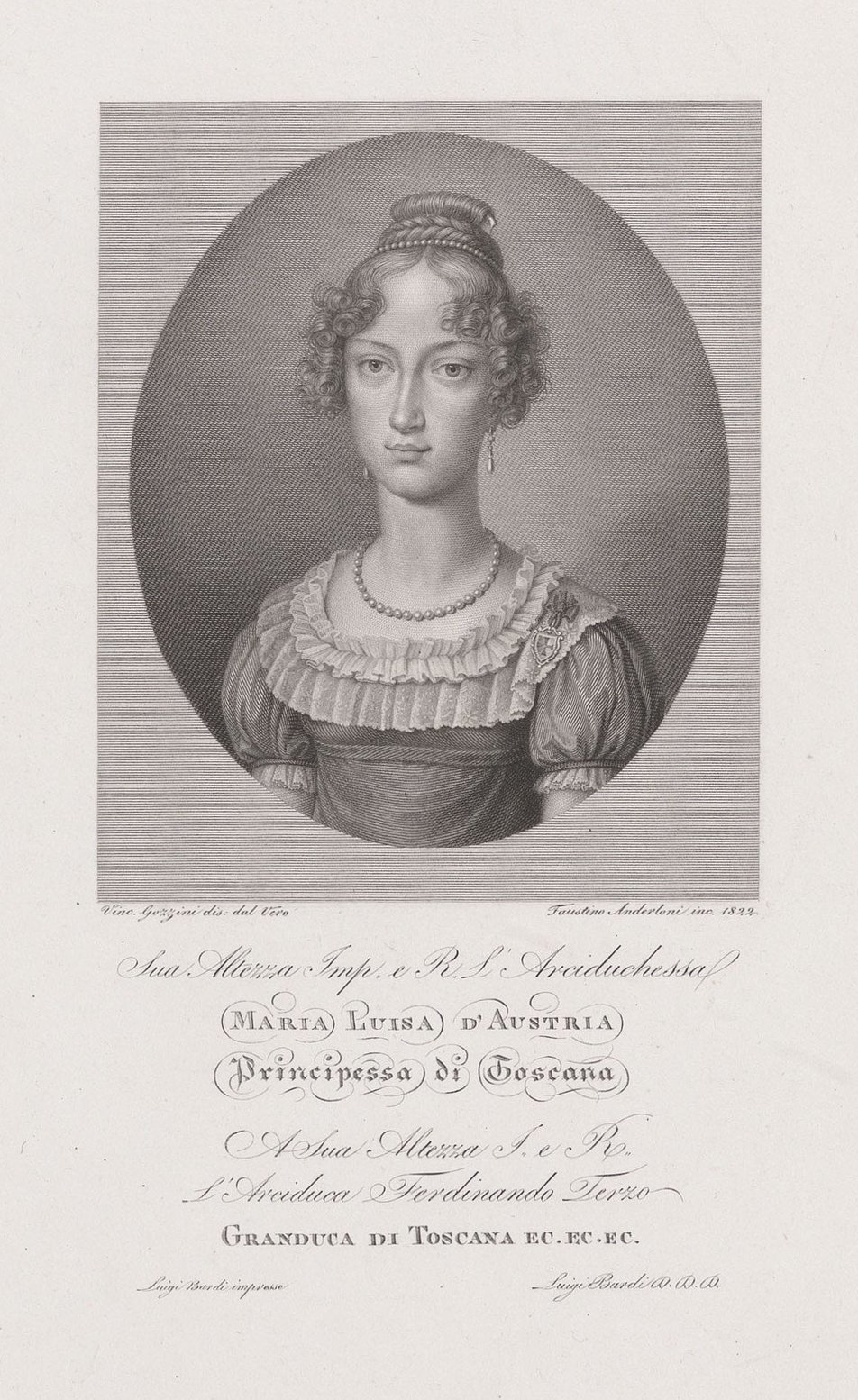 Archduchess Maria Louise of Austria, princess of Tuscany, daughter of Ferdinand III of Tuscany, and sister of Leopold II of Tuscany. (1798-1856)